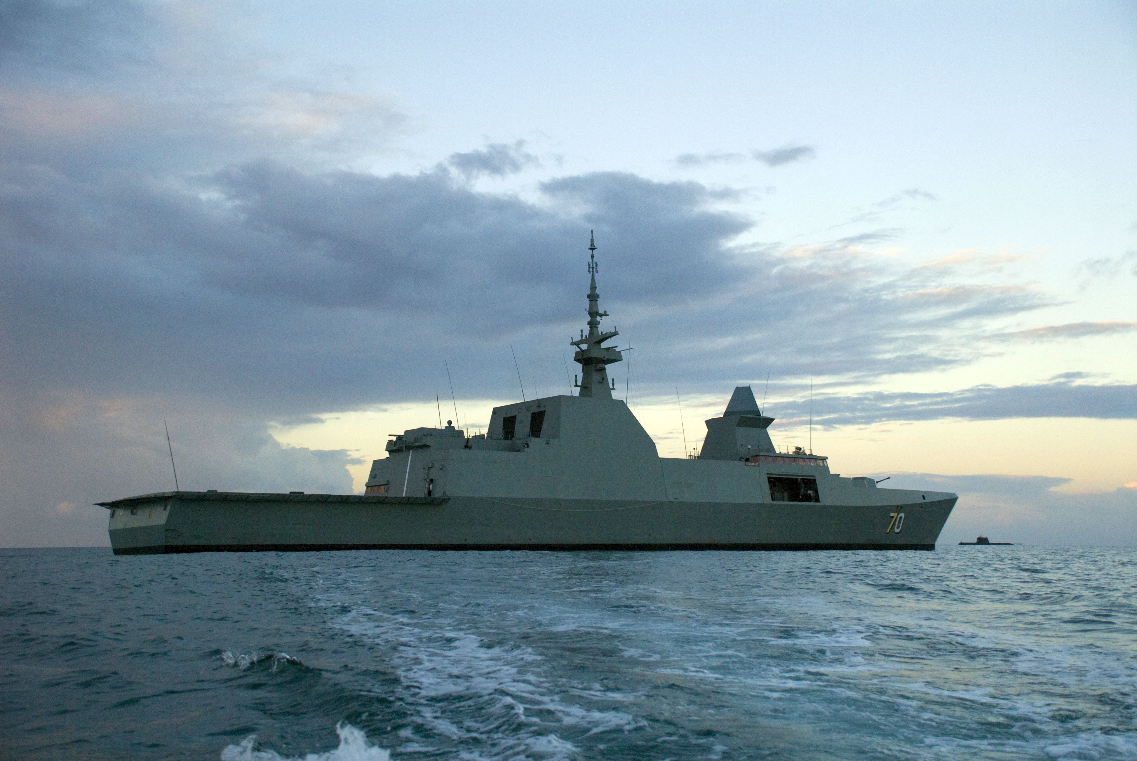 Republic of Singapore frigate Steadfast (FFS 70) steams off the coast of Hawaii during Rim of the Pacific (RIMPAC) 2008.